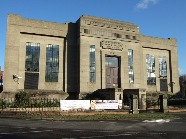 Leatherhead Pumping Station. A classic 1930's waterworks building.